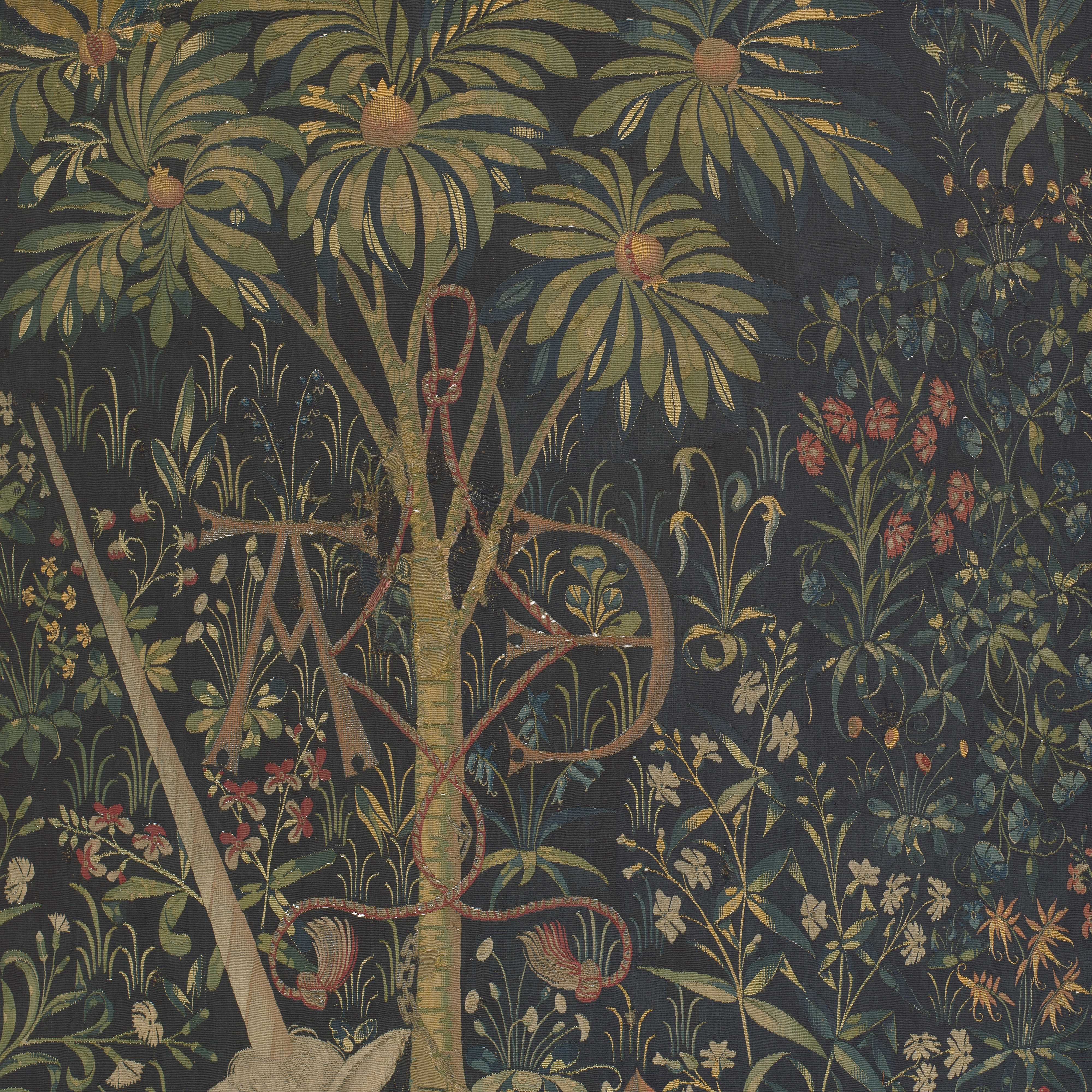 South Netherlandish; Tapestry; Textiles-Tapestries